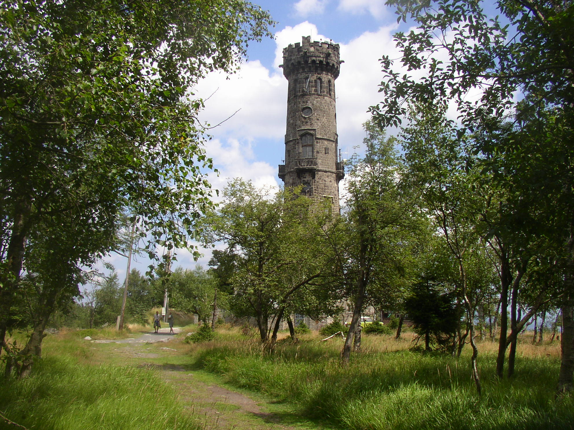 Stone lookout tower from 1864 at Děčínský Sněžník (723 m), a table mountain near Děčín, Czech Republic.